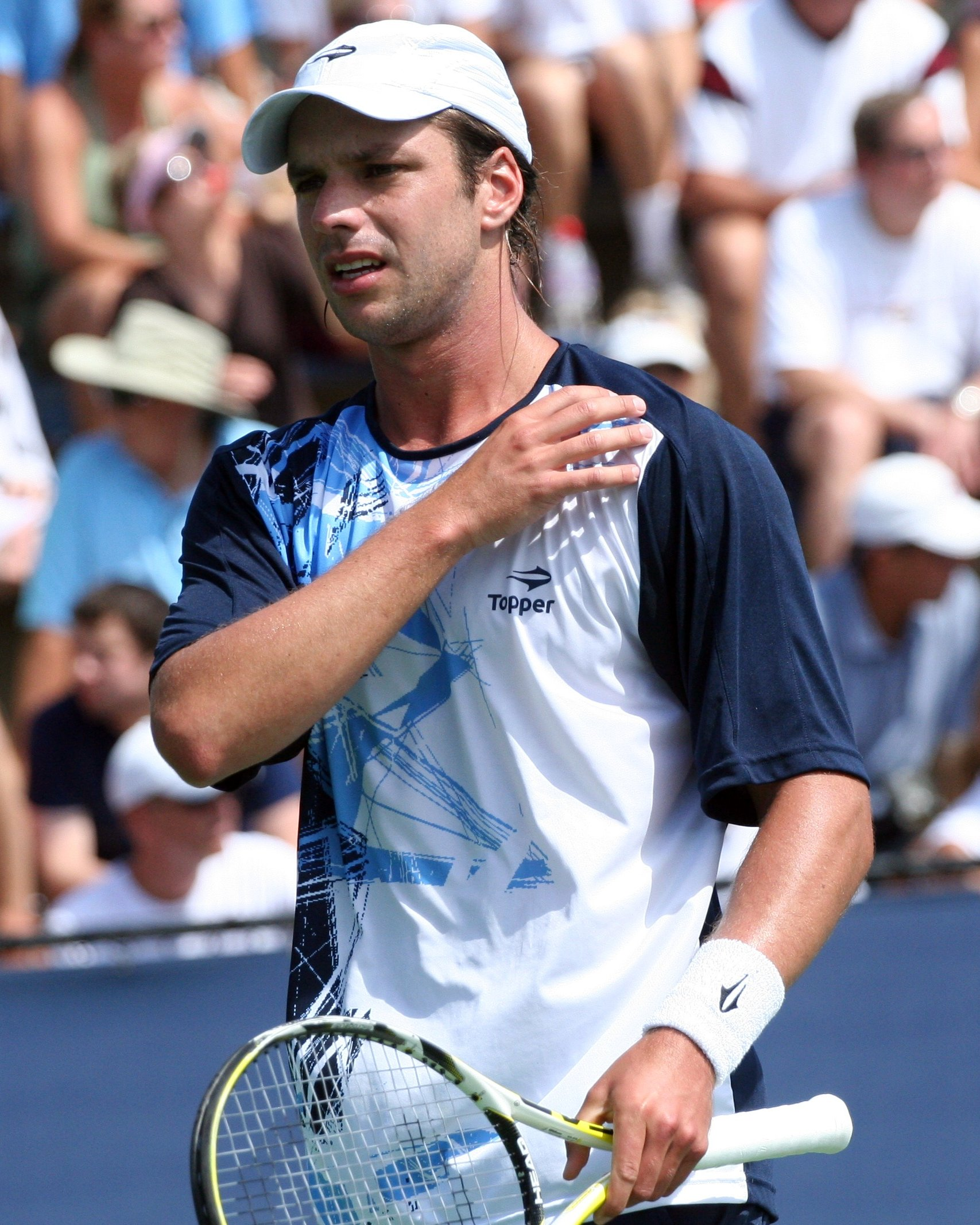 U.S. Open Friday, Sept. 4, 2009